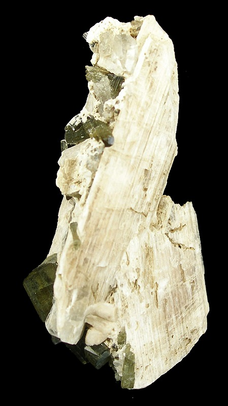 Hambergite Locality: Little Three Mine (Little 3), Ramona District, San Diego County, California, USA (Locality at ) Size: miniature, 3.7 x 1.9 x 1.2 cm Hambergite This species is really very rare for the locale. In fact, I have not seen another myself. Hambergite in general is rare, and when found at the Himalaya Mine is treasured by collectors locally. But this, which actually is a display-sized miniature, and with green tourmaline in association, is even rarer still than any Himalaya Mine specimen. I never even knew the species occurred at this mine, known for its green tourmalines, topaz, and garnets. I regard it as a fairly important piece. Ex. William Larson Collection.